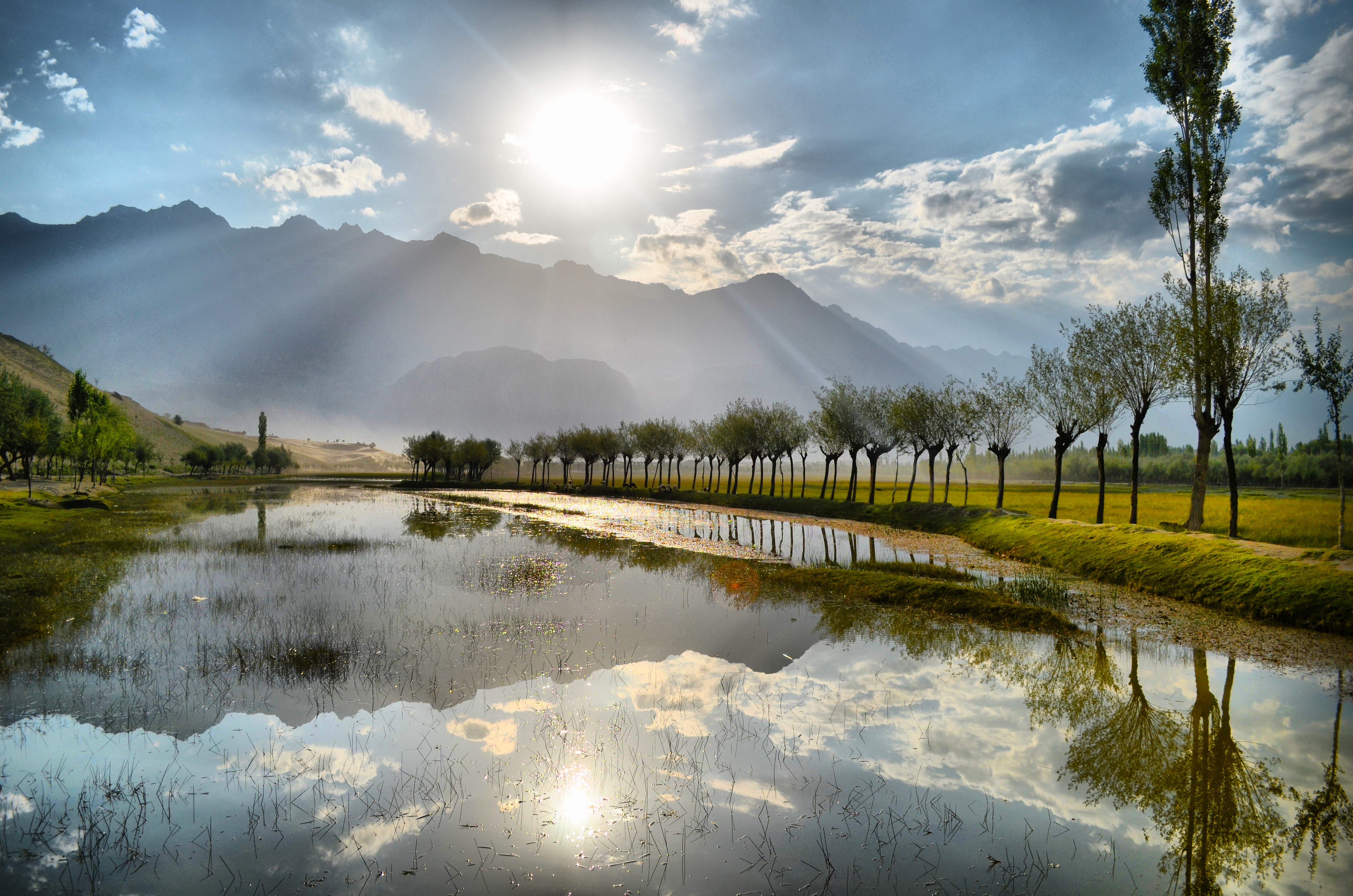 A shot of Katpana Skardu, Gilgit Baltistan, Pakistan.